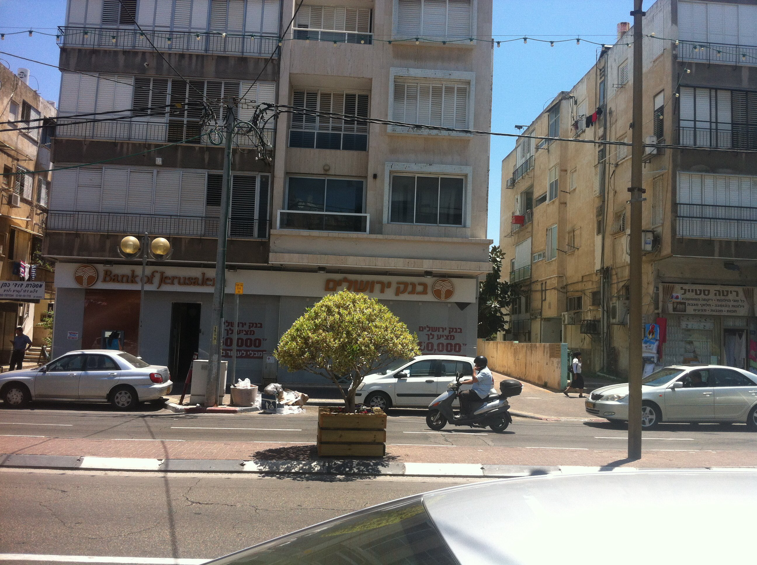 Cities in Israel, 28 SOKOLOV ST. , HOLON